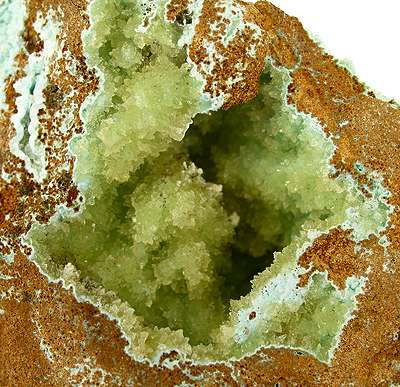 Senegalite Locality: Mount Kourou Diakouma (Kouroudiako), Saraya, Falémé River basin, Tambacounda Region, Senegal (Locality at ) Size: small cabinet, 8.1 x 6.3 x 4.2 cm Senegalite Beautiful crystalline carpet of senegalite lines pockets of turquoise, on this classic specimen form the type locality.